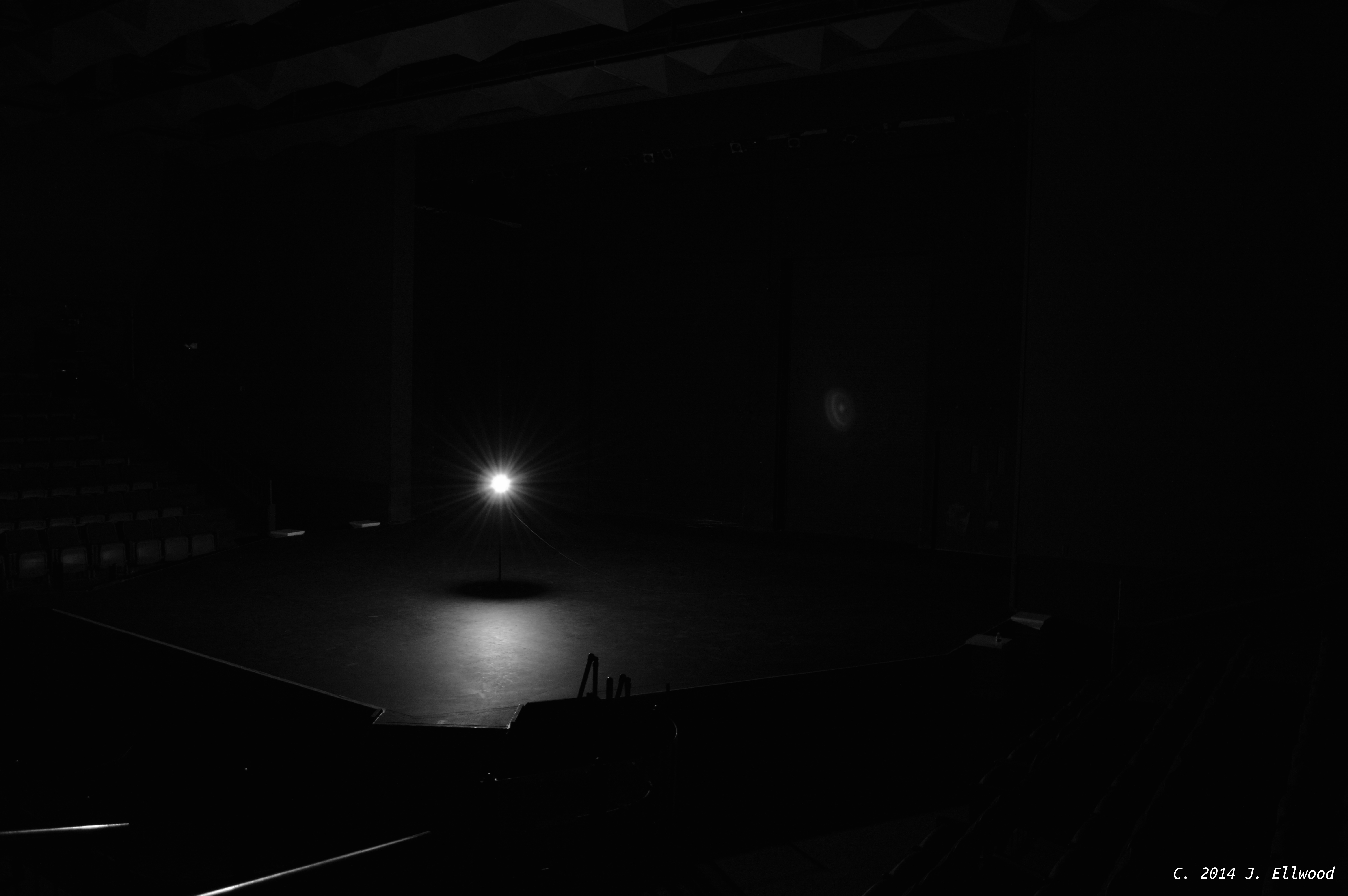 A Ghost Light on an empty stage in a darkened theater, following the tradition of leaving a lamp lit on an empty stage. Taken at the WildWood Arts Center, Little Rock, Arkansas.